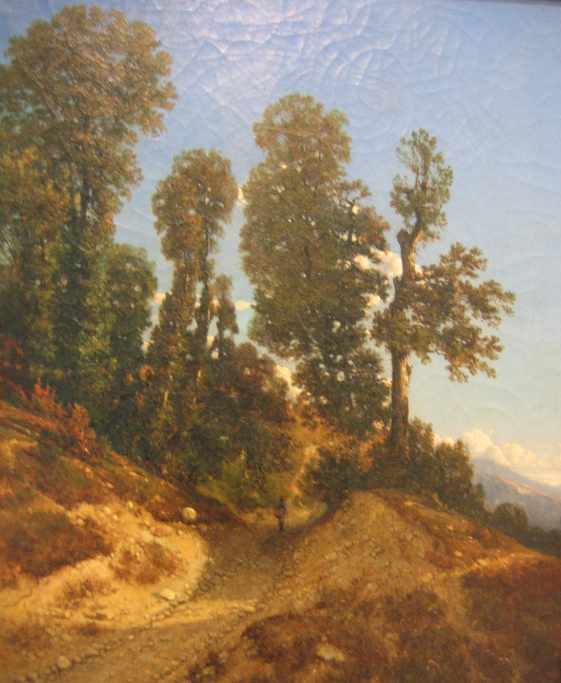 Way near Seyssins